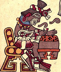 Macuilxochitl singing and playing the huehuetl, an Aztec drum.